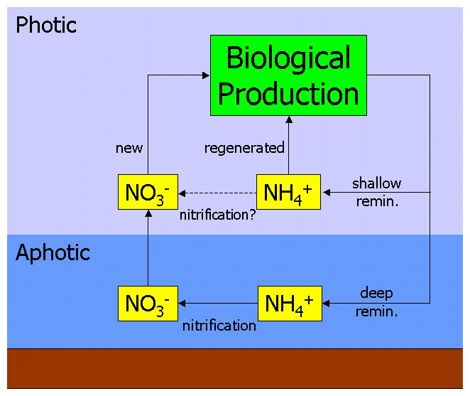 This diagram is an alternative to that shown here, and should be compared with it. Its significance is that here nitrate is nitrified in both the photic and aphotic zones rather than only produced at depth. This suggests that the ratio between new and regenerated production (the so-called f-ratio) does not straightforwardly allow one to infer the flux of organic nitrogen from the photic zone to the aphotic zone.